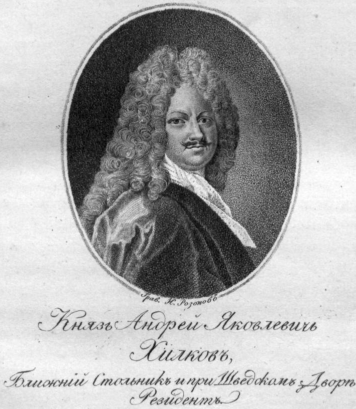 Andrey Khilkov